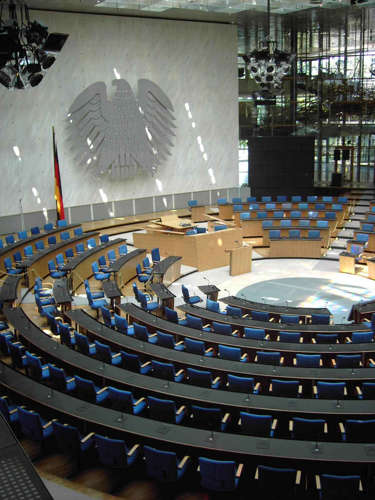 New Bundestag plenary assembly room in Bonn.